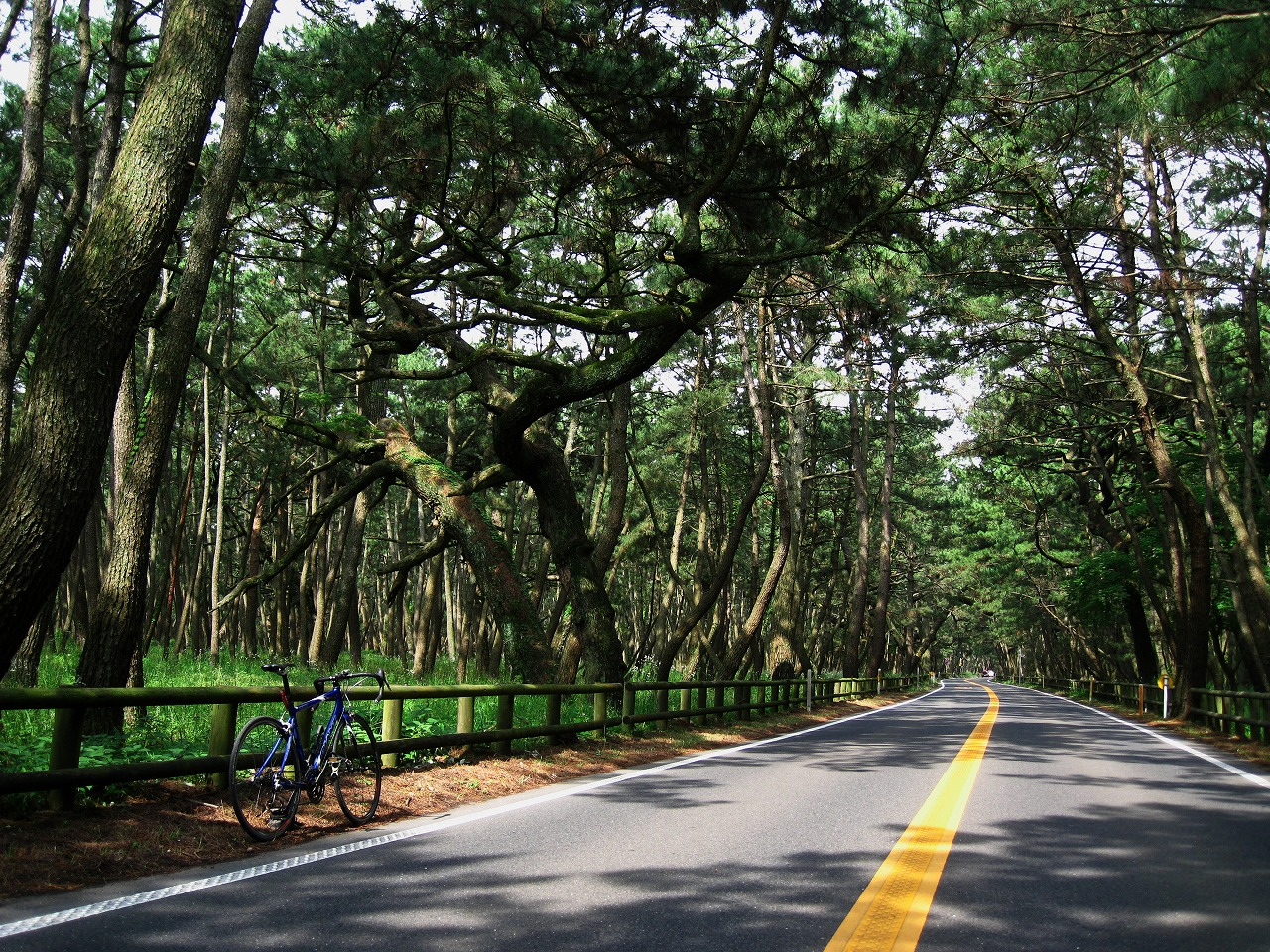 Pinus thunbergii, Niji-no-Matsubara in Karatsu, Saga, Japan